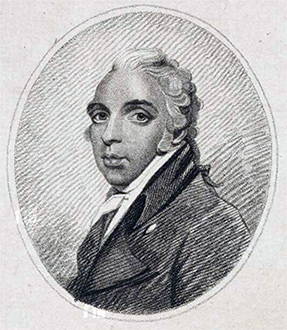 Photo of Francis Caulfeild